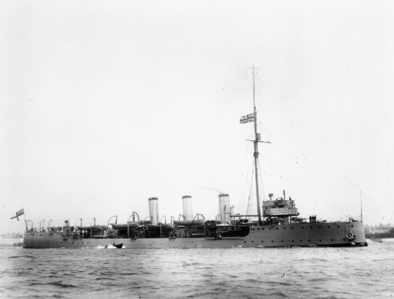 British scout cruiser HMS FORESIGHT.